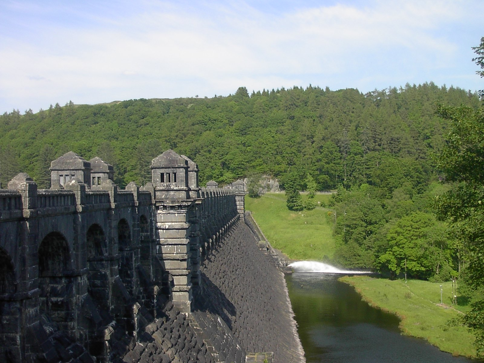 View of the Lake Vyrnwy Dam in Powys looking East, showing compensation water being released from the reservoir.